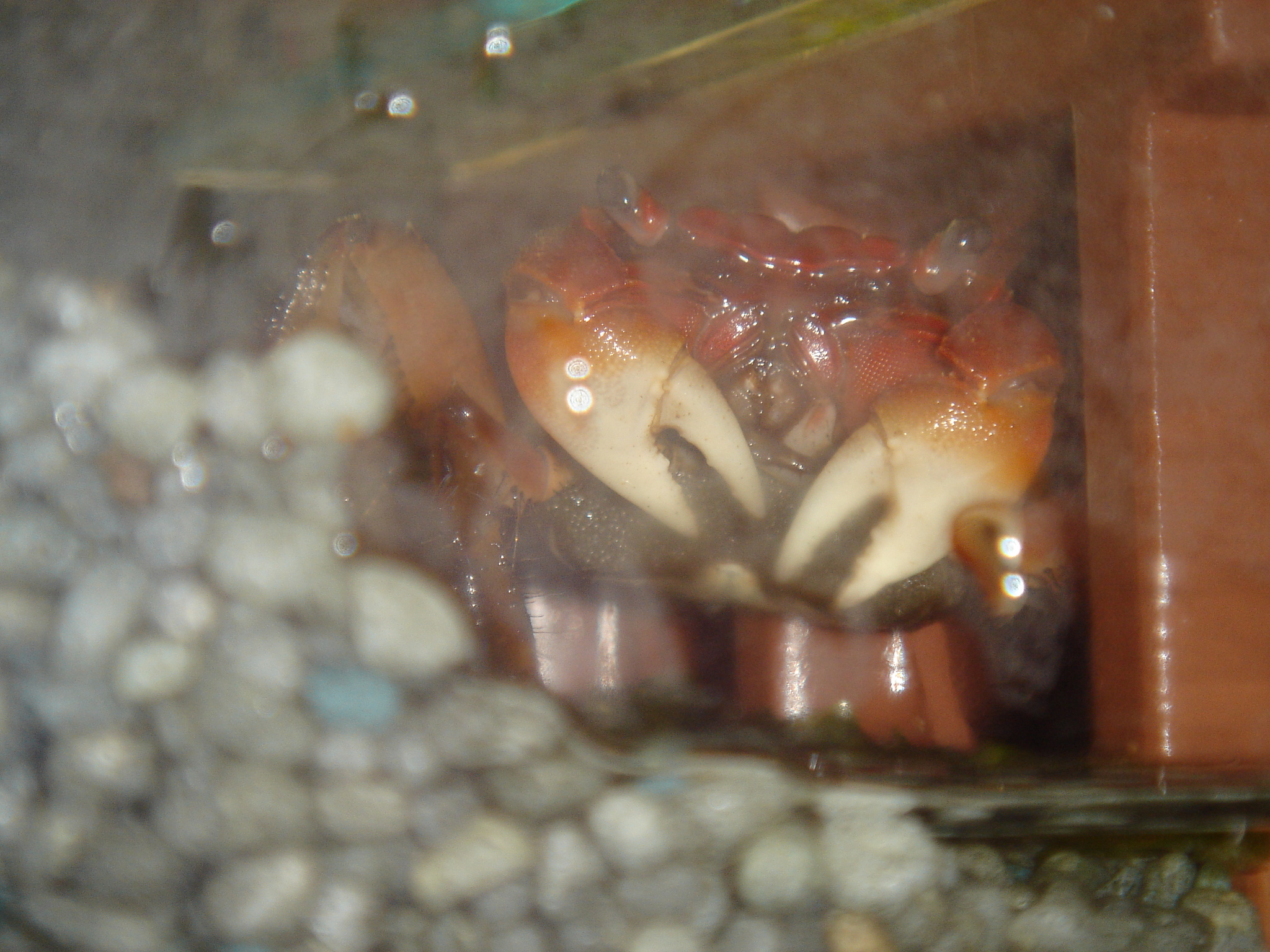 自己拍的